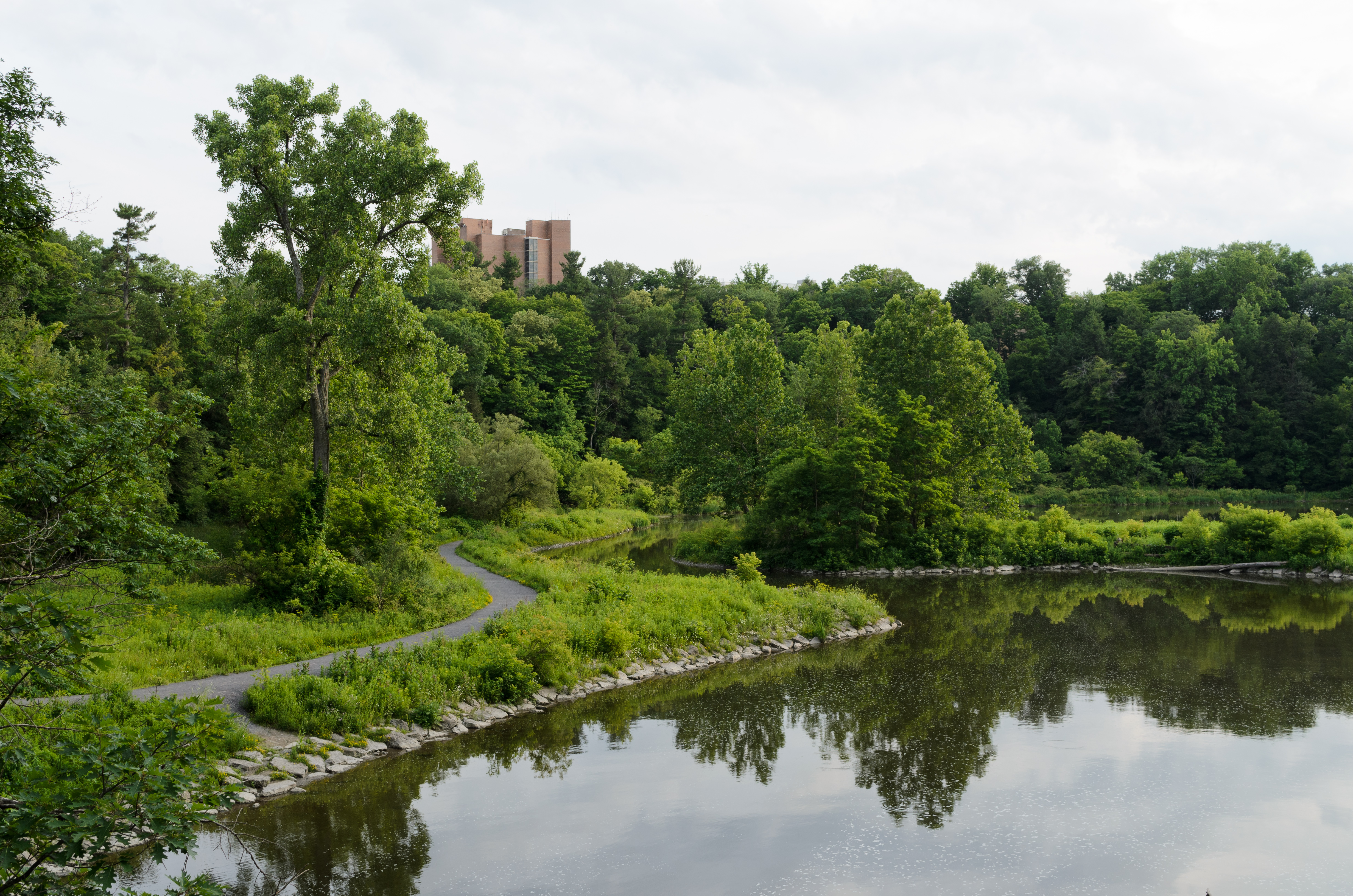 Beebe Lake, Cornell University, Ithaca, New York.